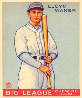 1933 Goudey baseball card of Lloyd Waner of the Pittsburgh Pirates #164. PD-not-renewed.